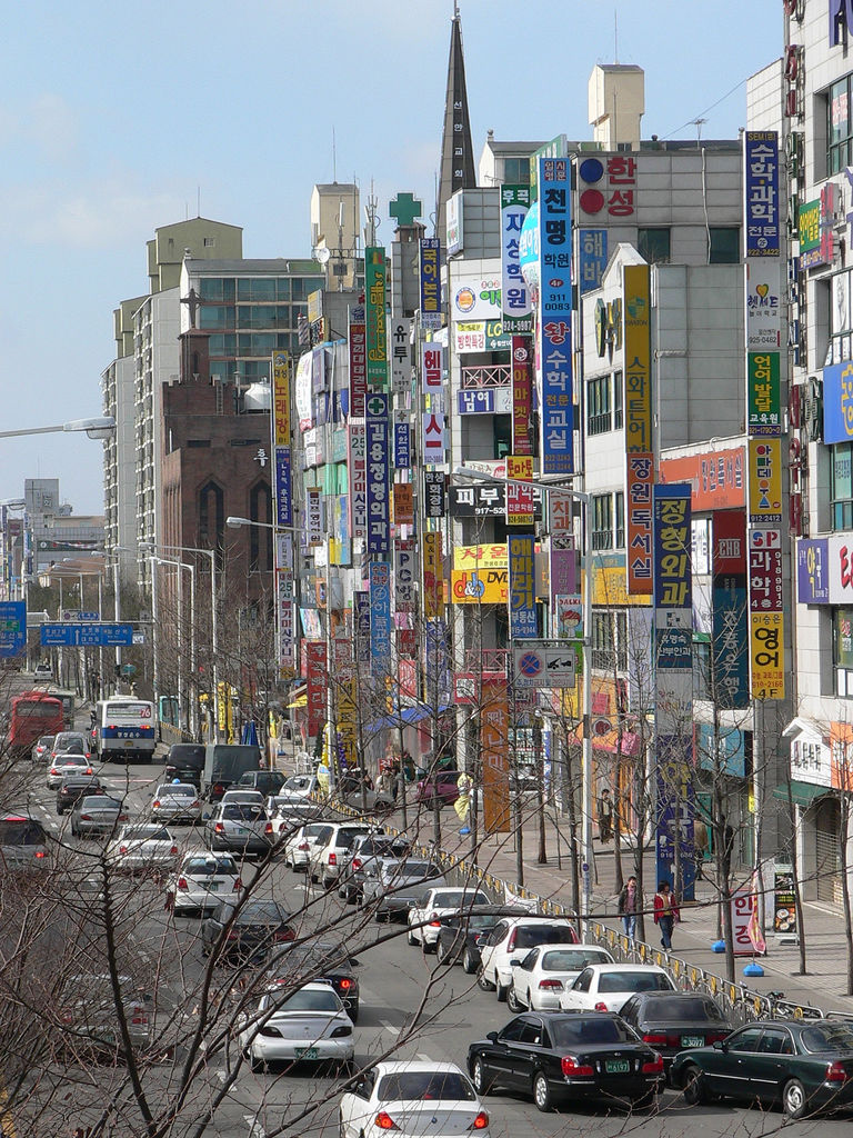 Downtown street on Ilsan, Goyang, South Korea.